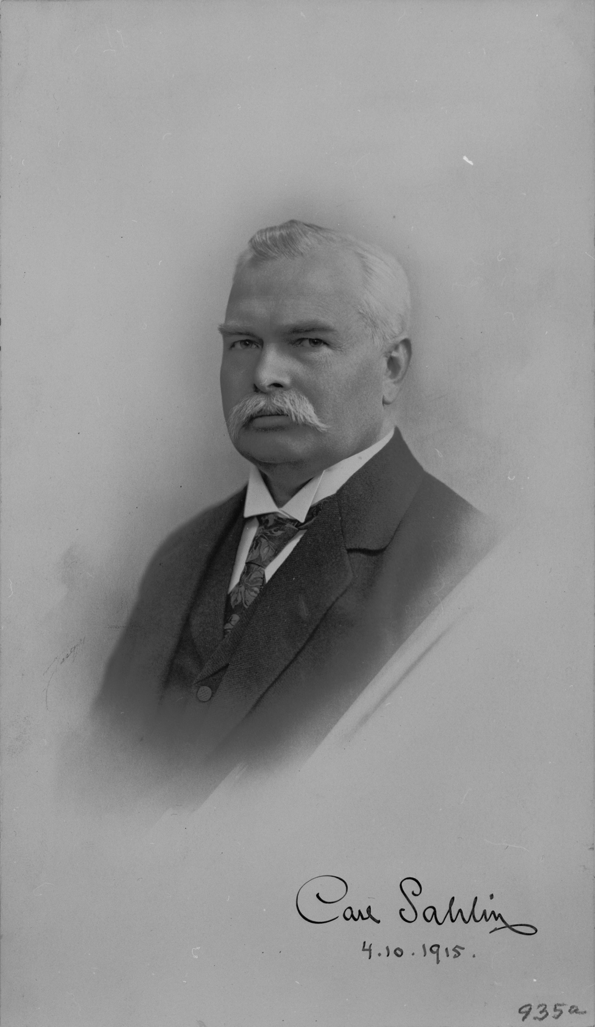 Portrait of Carl Sahlin (1861-1943)